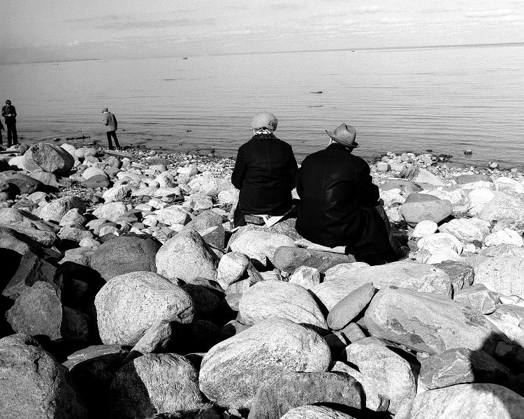 USSR. Leningrad 70. th of the 20.Century. Photo by Jiri Tondl.